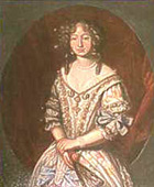 Aurora Formentini (1610-1653)